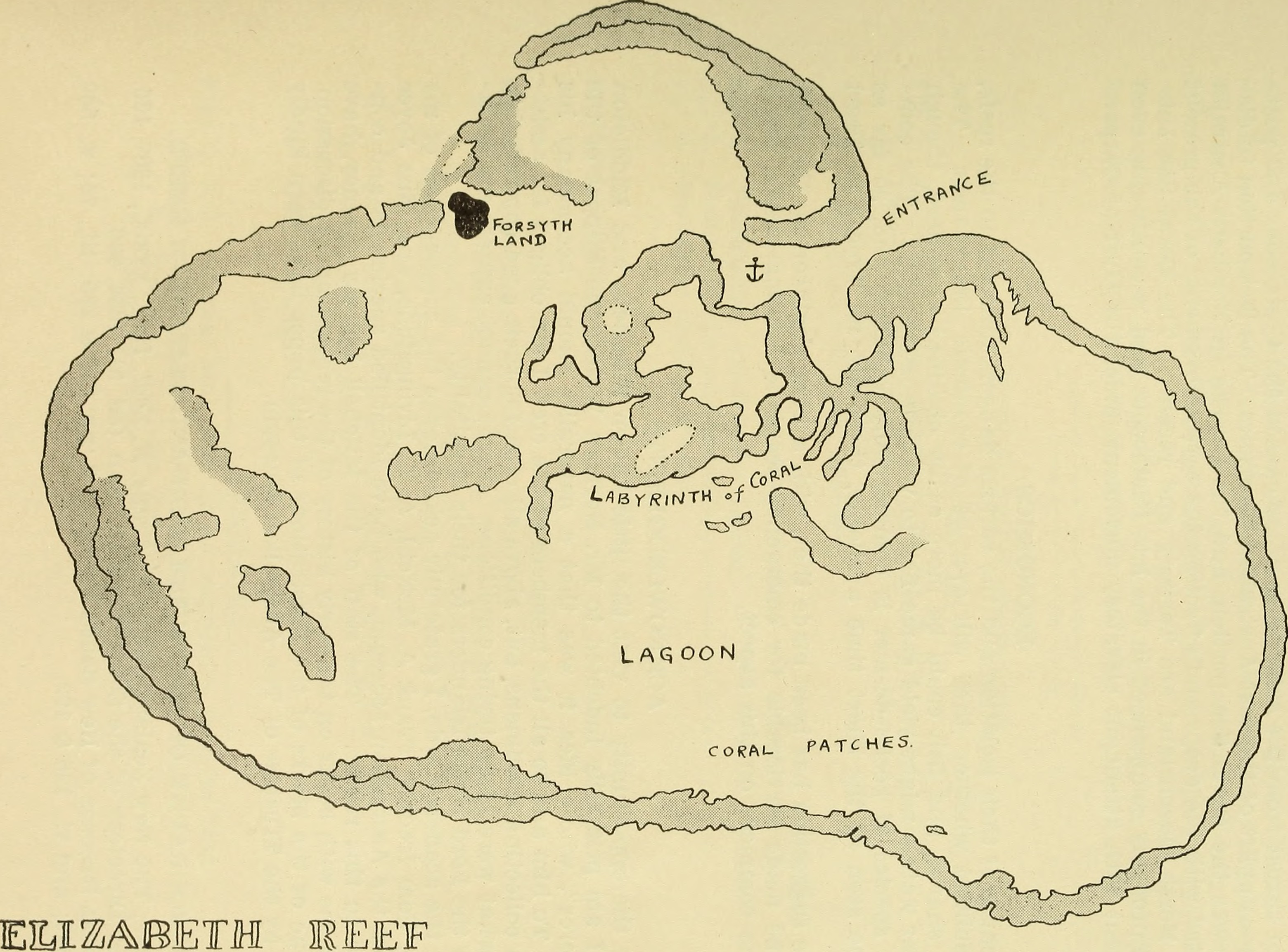 Title: The Australian zoologist Year: 1914 (1910s) Authors: Royal Zoological Society of New South Wales; Royal Zoological Society of New South Wales. Proceedings Subjects: Zoology; Zoology; Zoology Publisher: (Sydney, Royal Zoological Society of New South Wales) Text Appearing Before Image: ELIZABETH REEF. 271 Hi^o/j 3nnj_ ^ Text Appearing After Image: Ml O